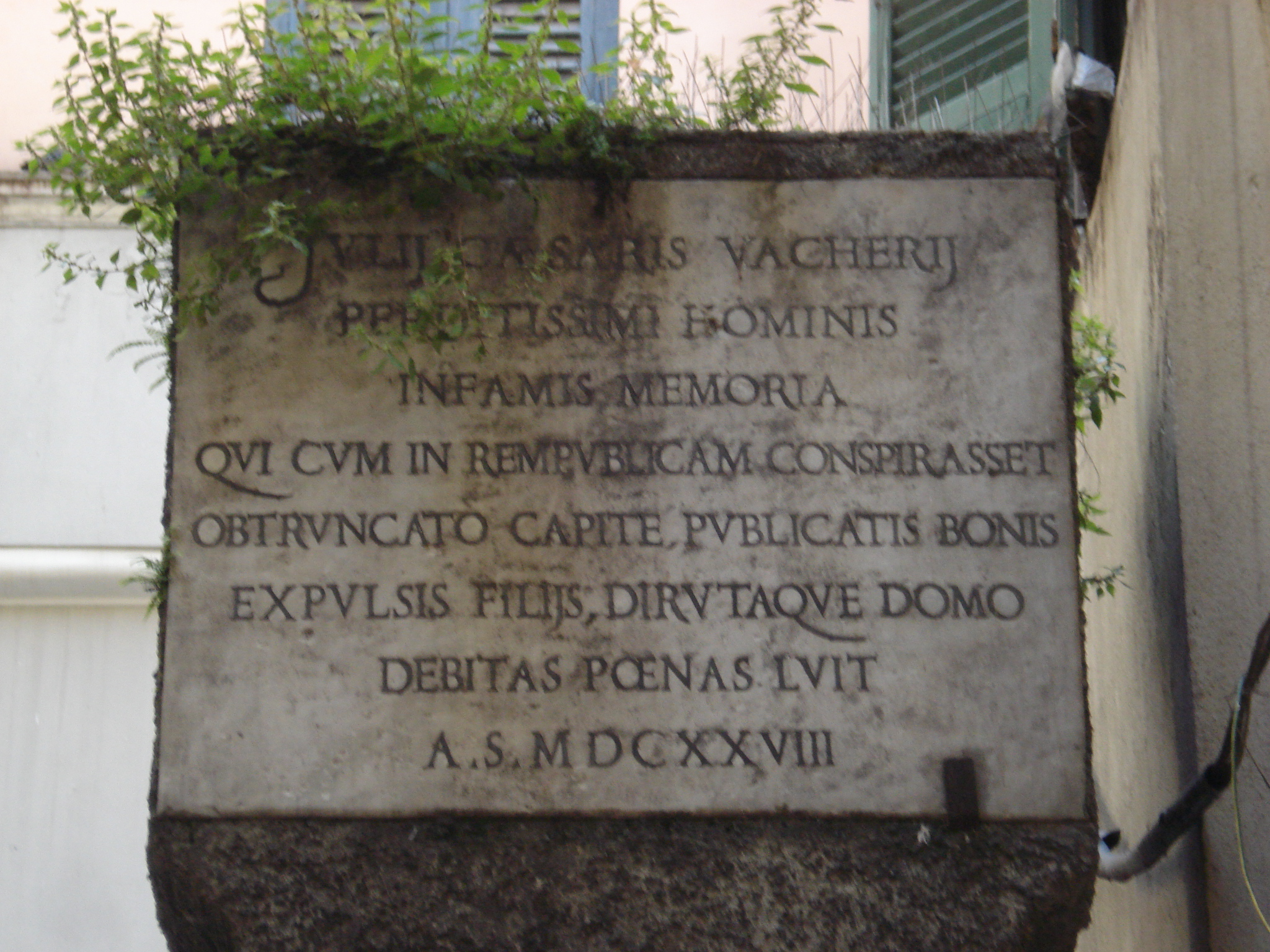 The column of infamy in Genova